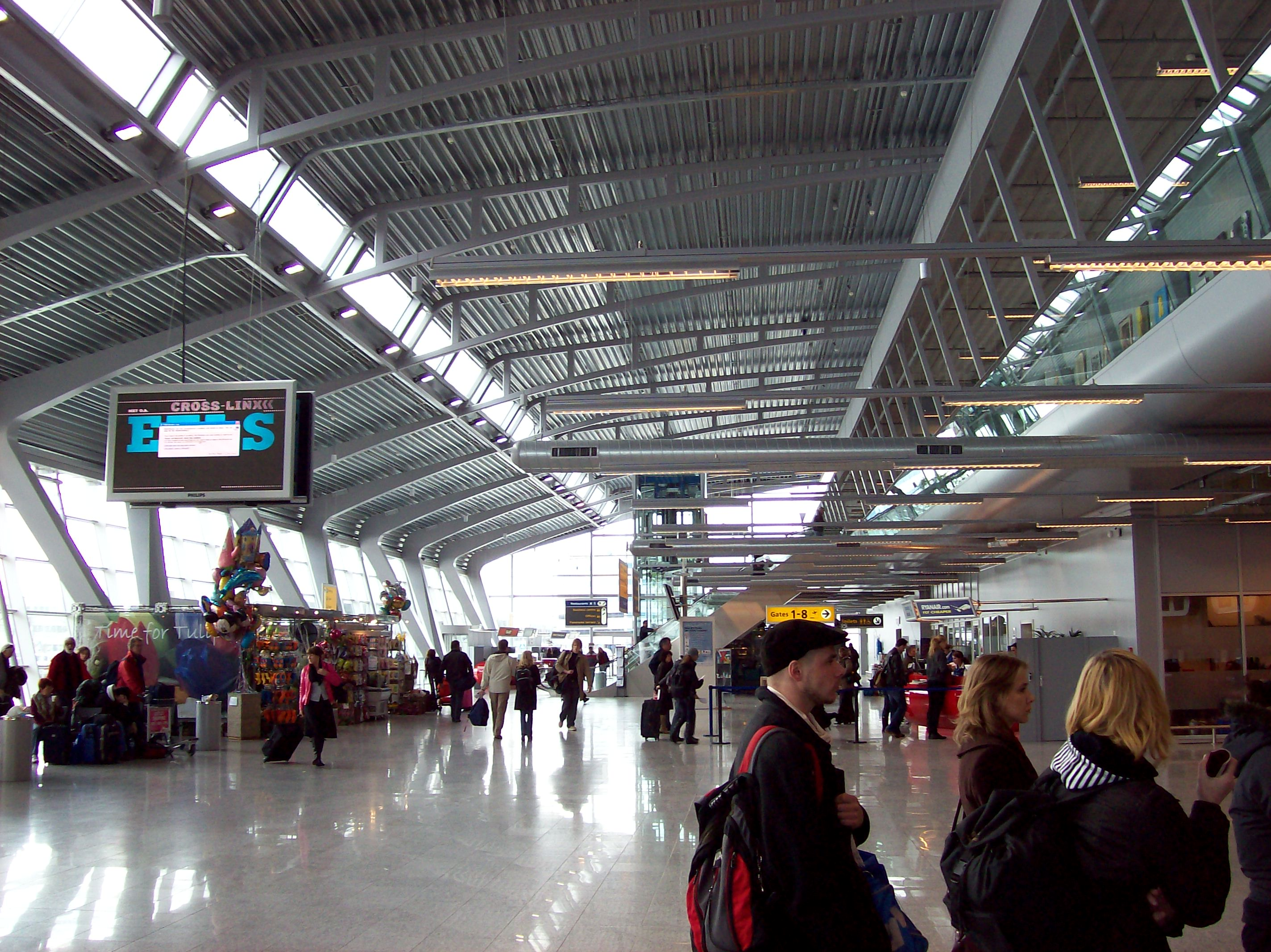 Airport terminal at the Eindhoven Airport